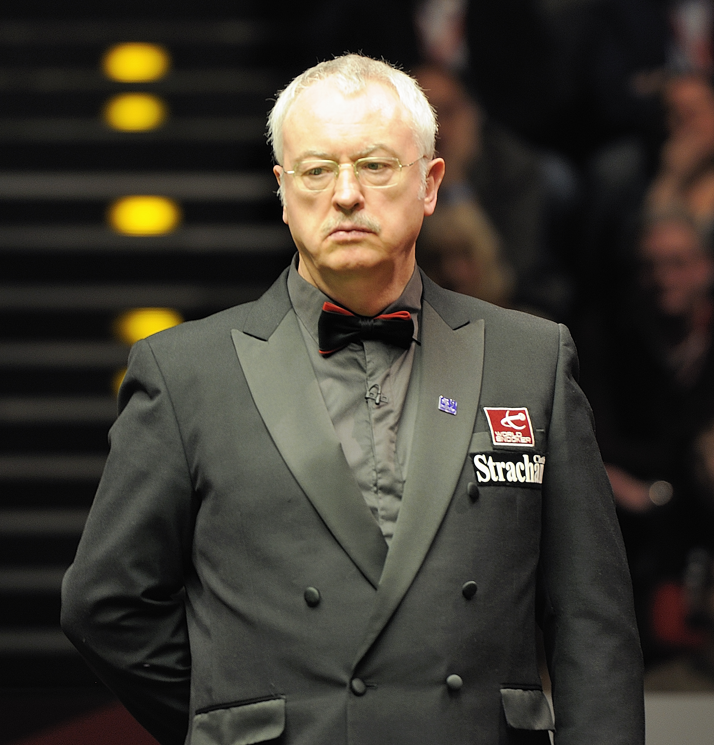 Picture taken in Berlin during the Snooker German Masters in 2014. Eirian Williams.